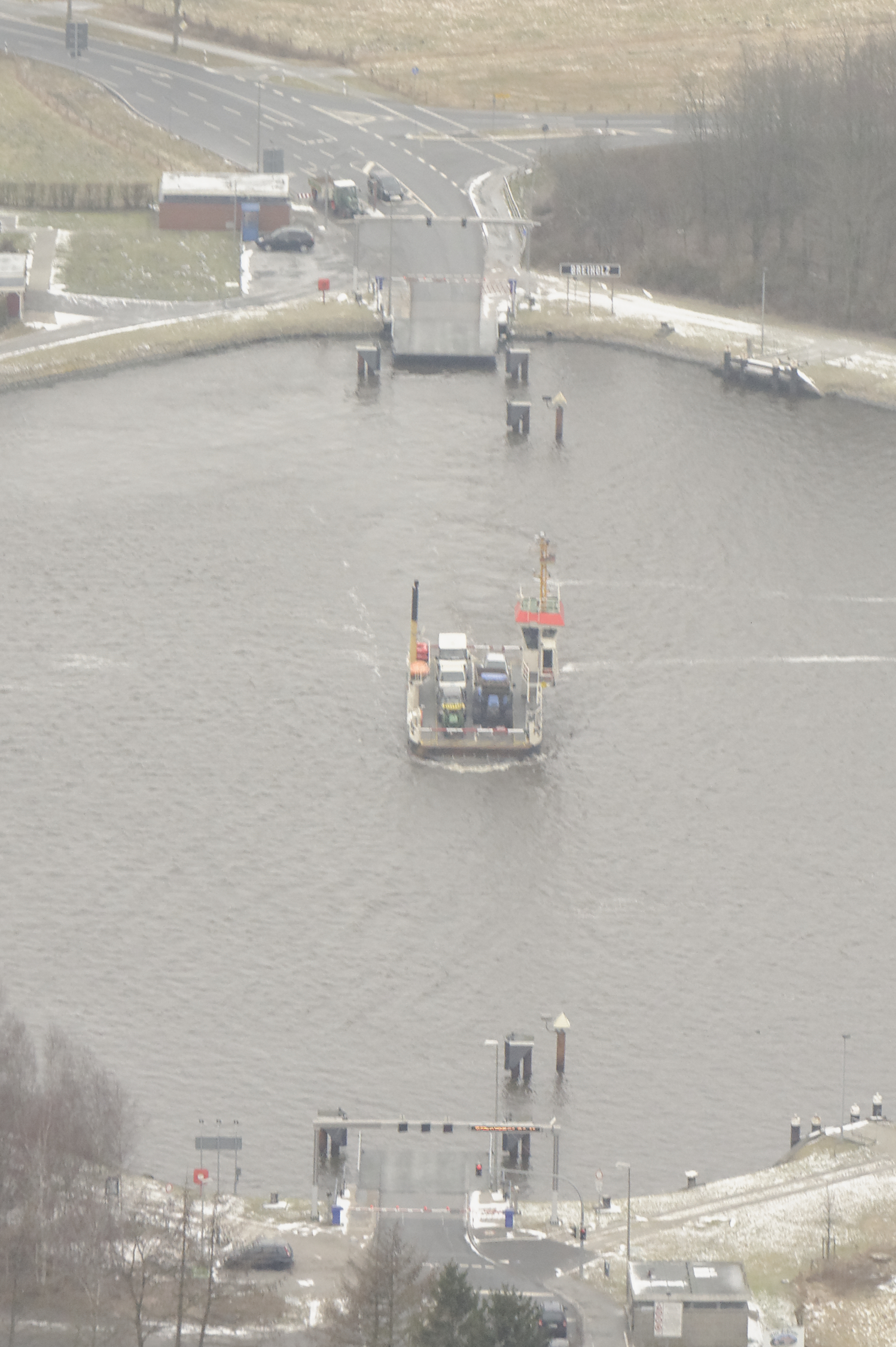 Fotoflugkurs Cuxhaven - leider bei trüben Wetter Fotoflugkurs Cuxhaven 2013 22. - 24. Februar 2013 vom Flugplatz Nordholz-Spieka Mit Unterstützung durch die Sportfluggruppe Nordholz/Cuxhaven e. V. The making of this document was supported by the Community-Budget of Wikimedia Germany. The making of this document was supported by Wikimedia Austria.